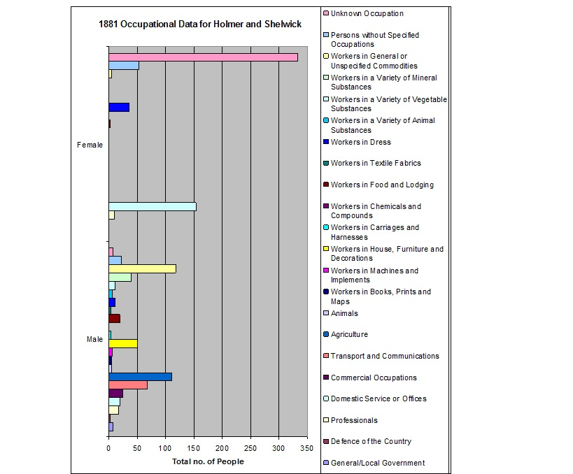 Using the Vision of Britain 1881 occupational census data, created a graph showing male and female employment in Holmer and Shelwick, Herefordshire